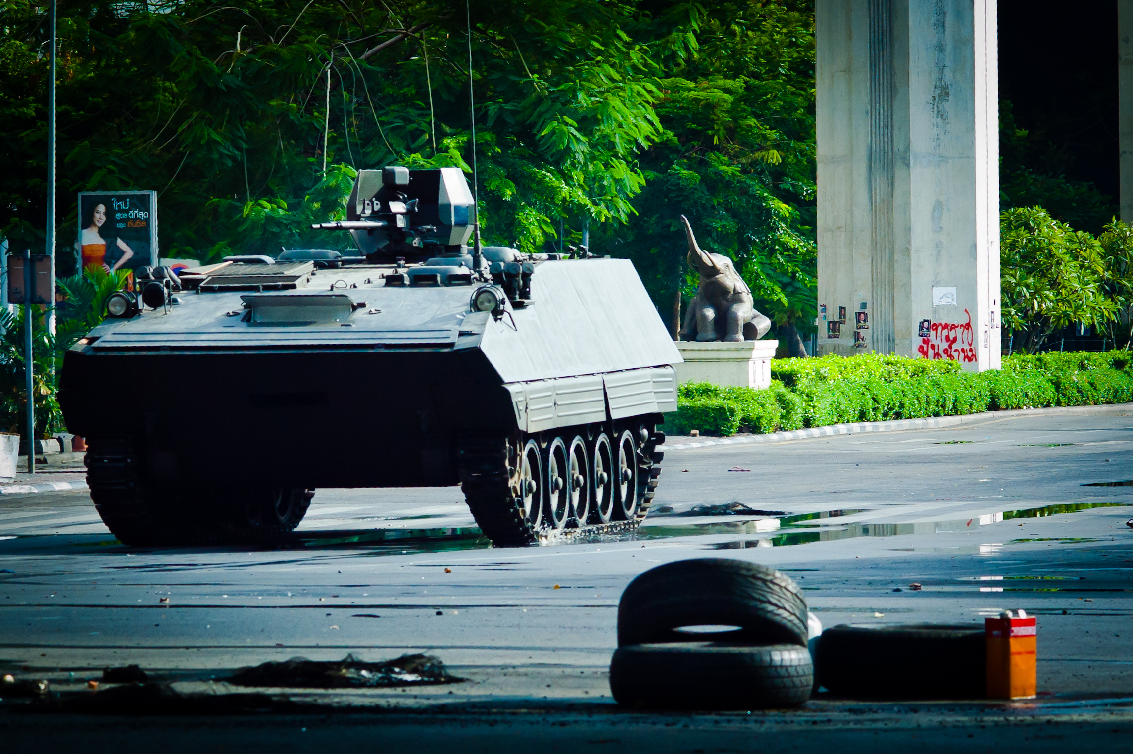 A Type-85 AFV prepares to assault the Red Shirt barricade near Chulalongkorn Hospital.